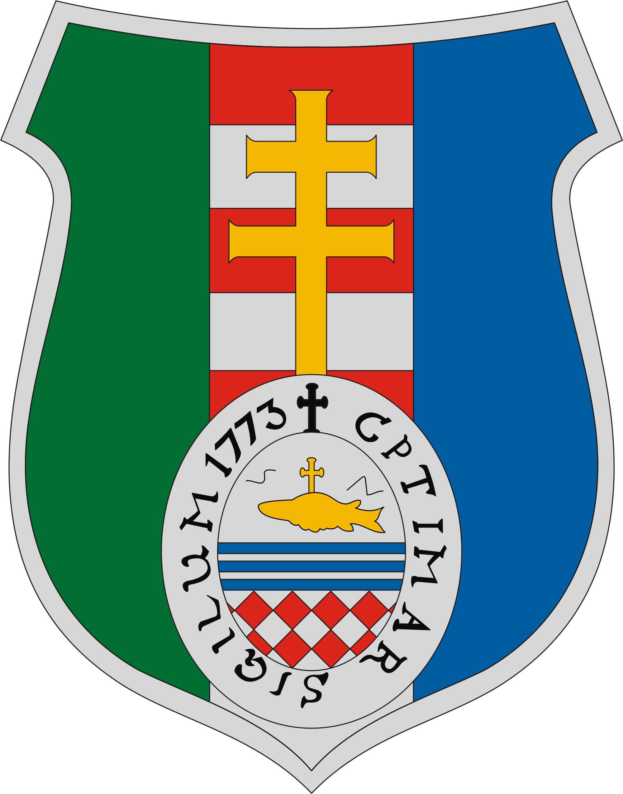 Coat of arms of Timár, Hungary